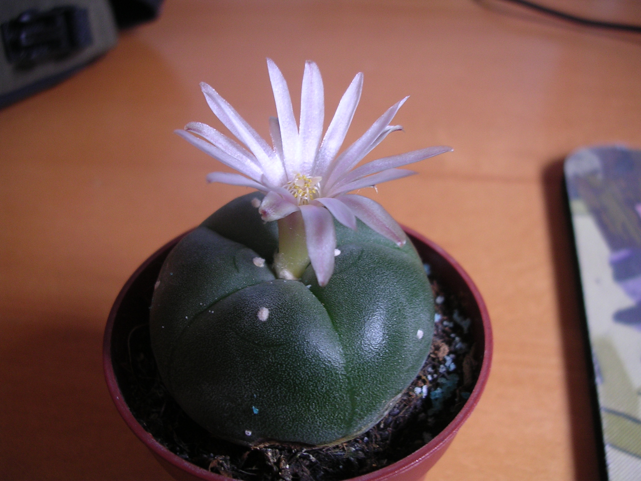 A flowering peyote cactus, a photograph of my own peyote, growing on my windowsill, UK. I'd appreciate it if any reproductions of this image would credit myself.